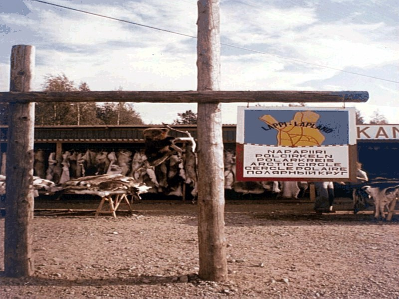 Arctic circle (northern polar circle) in Rovaniemi, Finland